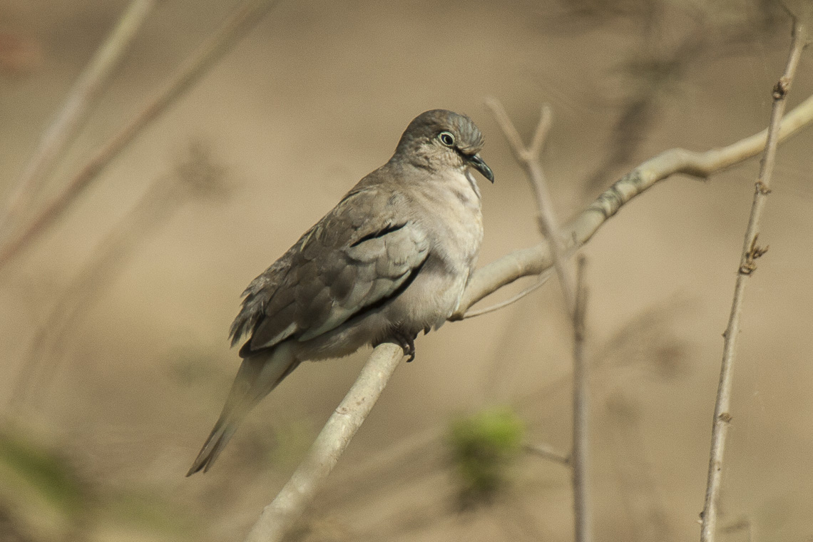 Picui Ground-Dove - Pantanal _MG_8681